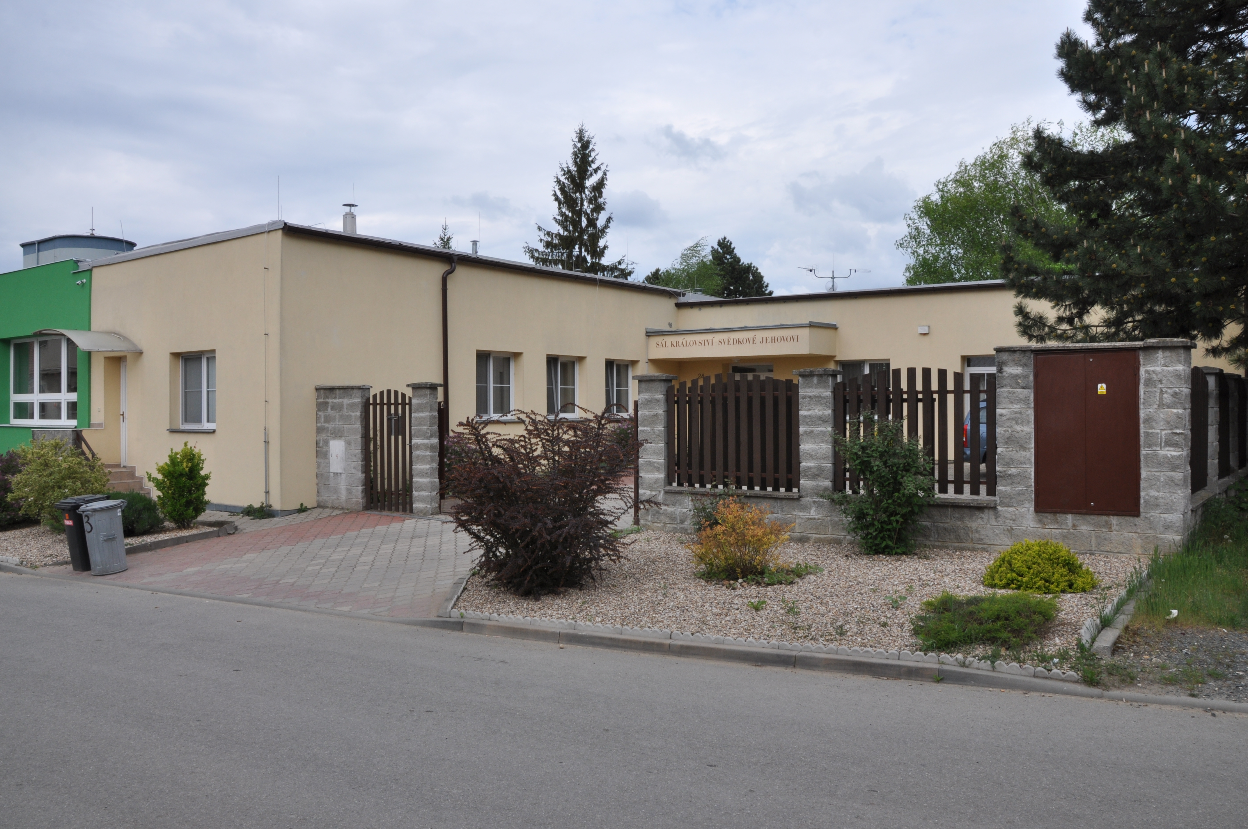 This image was acquired during the event Wikiměsto Hustopeče. Hustopeče, ulice Kapitána Jaroše, sál království